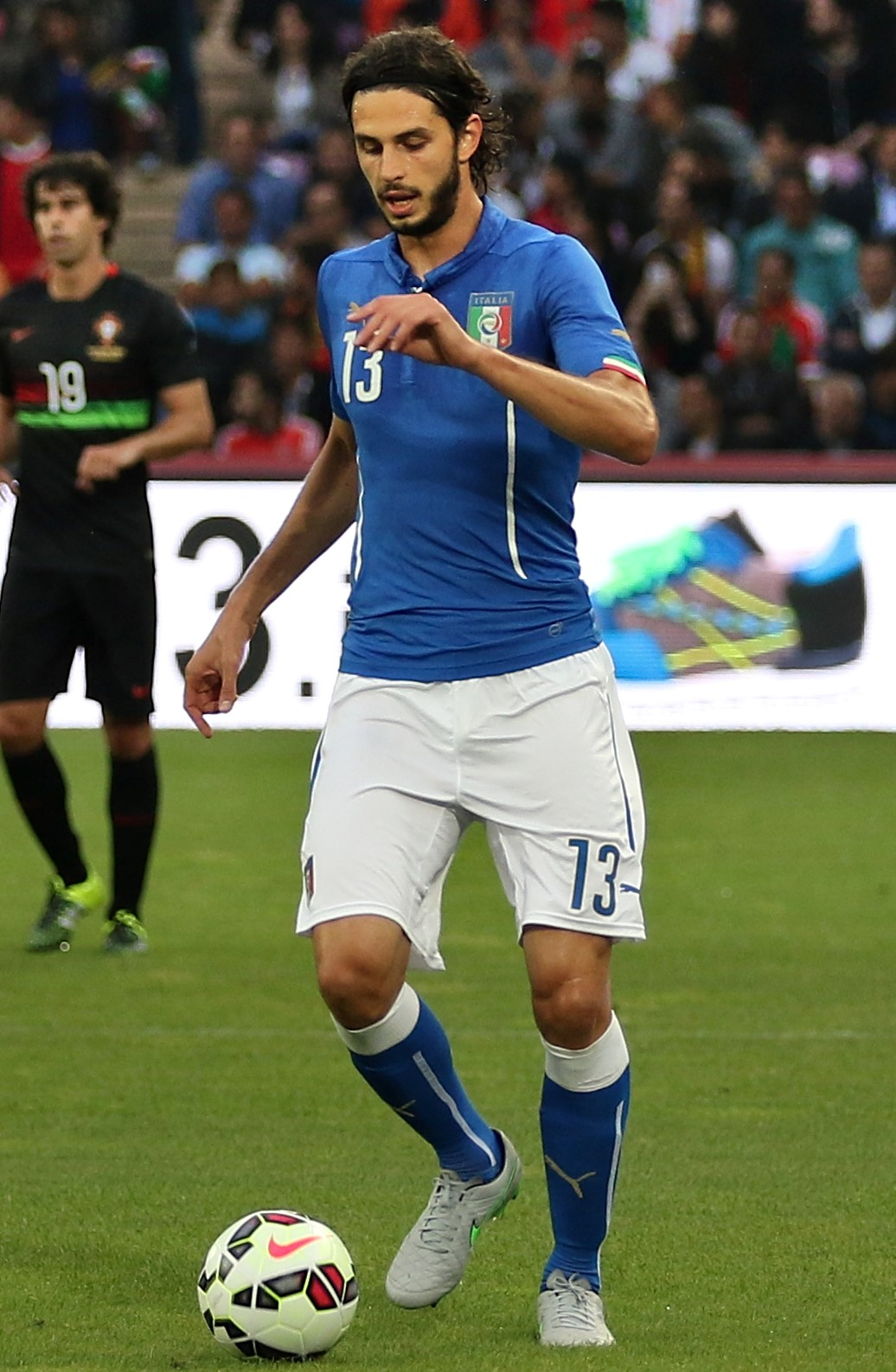 20150616 - Portugal - Italie - Genève - Andrea Ranocchia